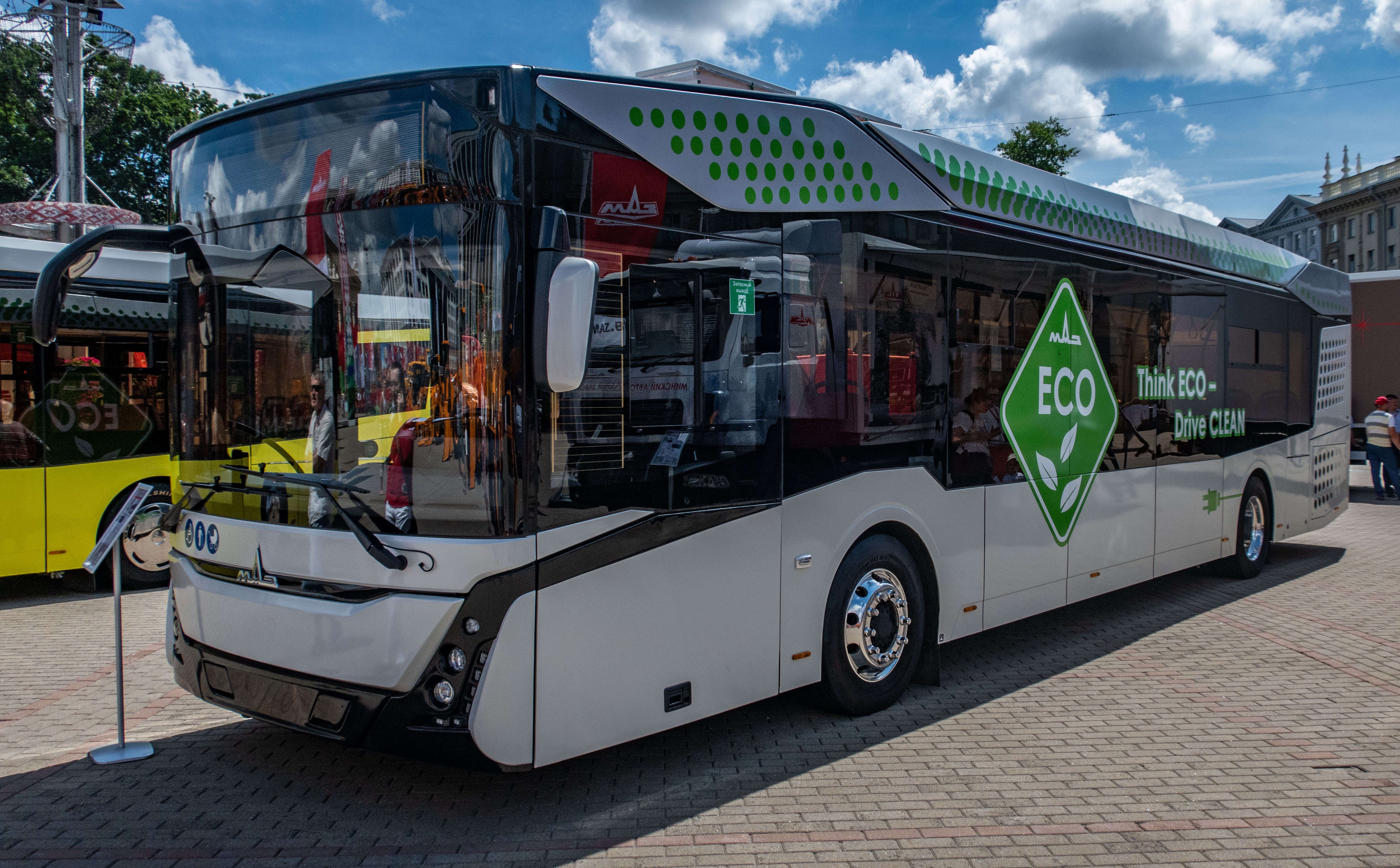 MAZ-303E10 electrobus. Minsk, Belarus